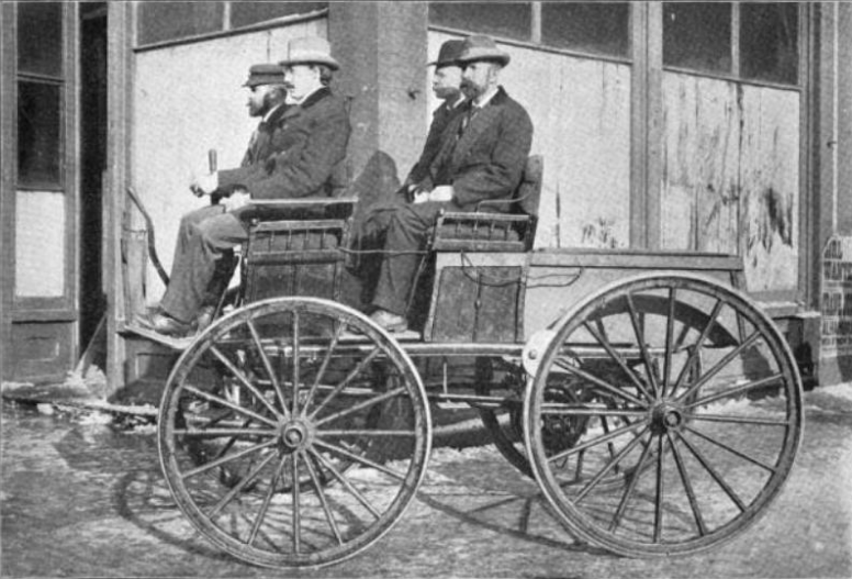 Morrison electric car sold to Harold Stugis. It was modified by Stugis to race in the 1895 "Times-Herald" automobile race.